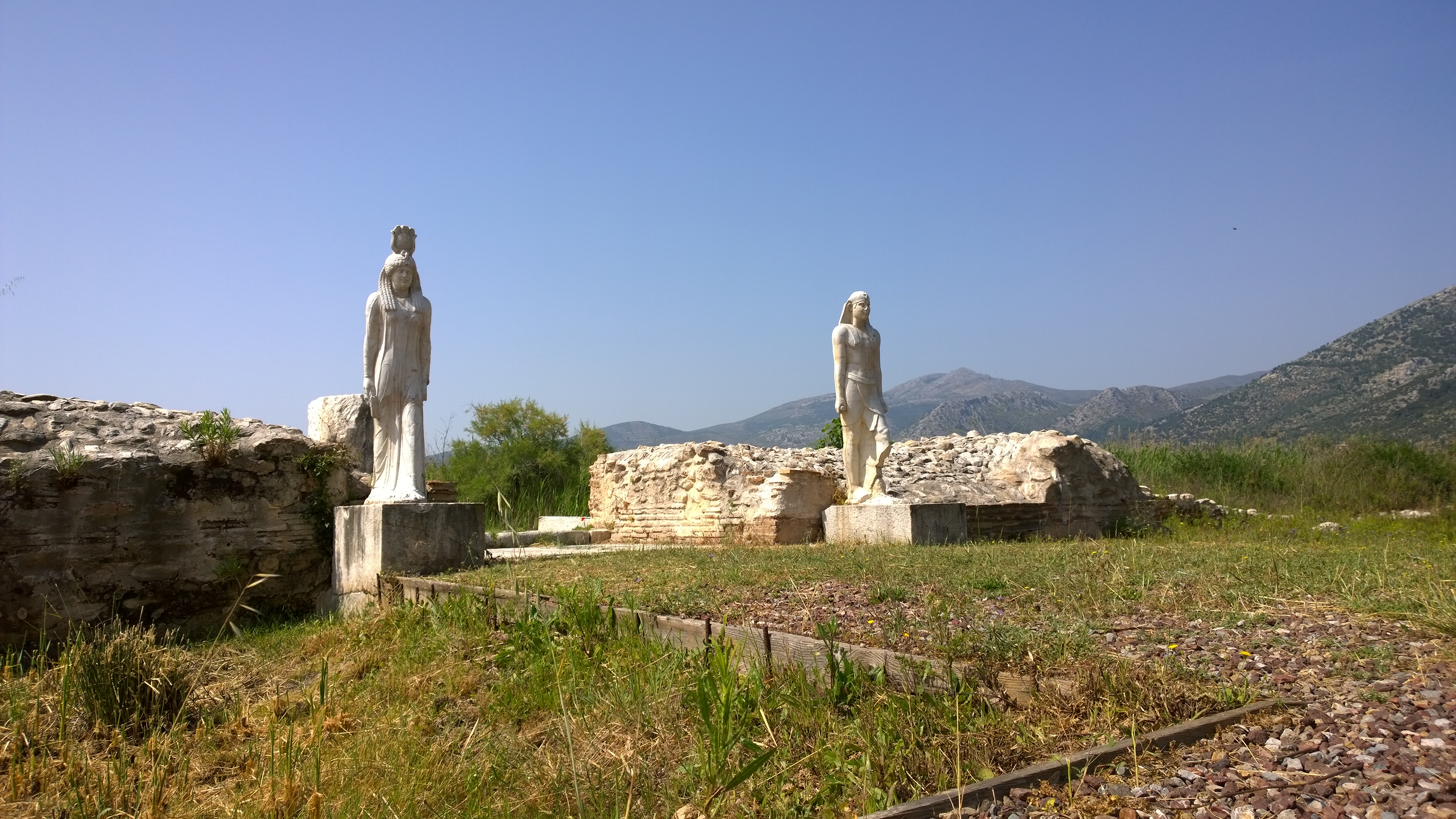 Sanctuary of the Egyptian Gods